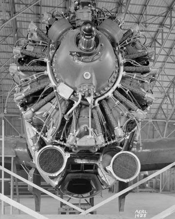 P-47 Thunderbolt radial engine.